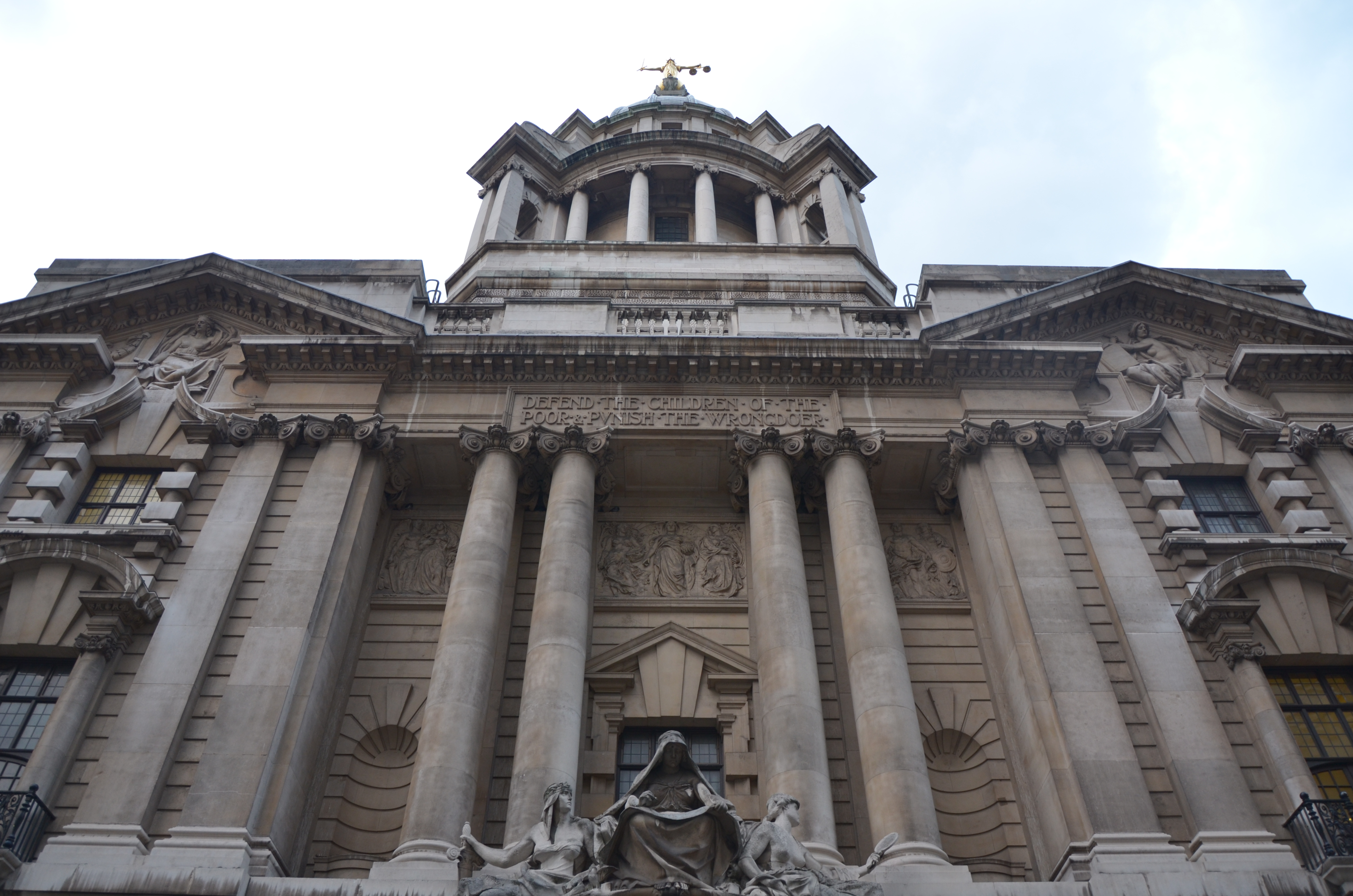 The Old Bailey, east London